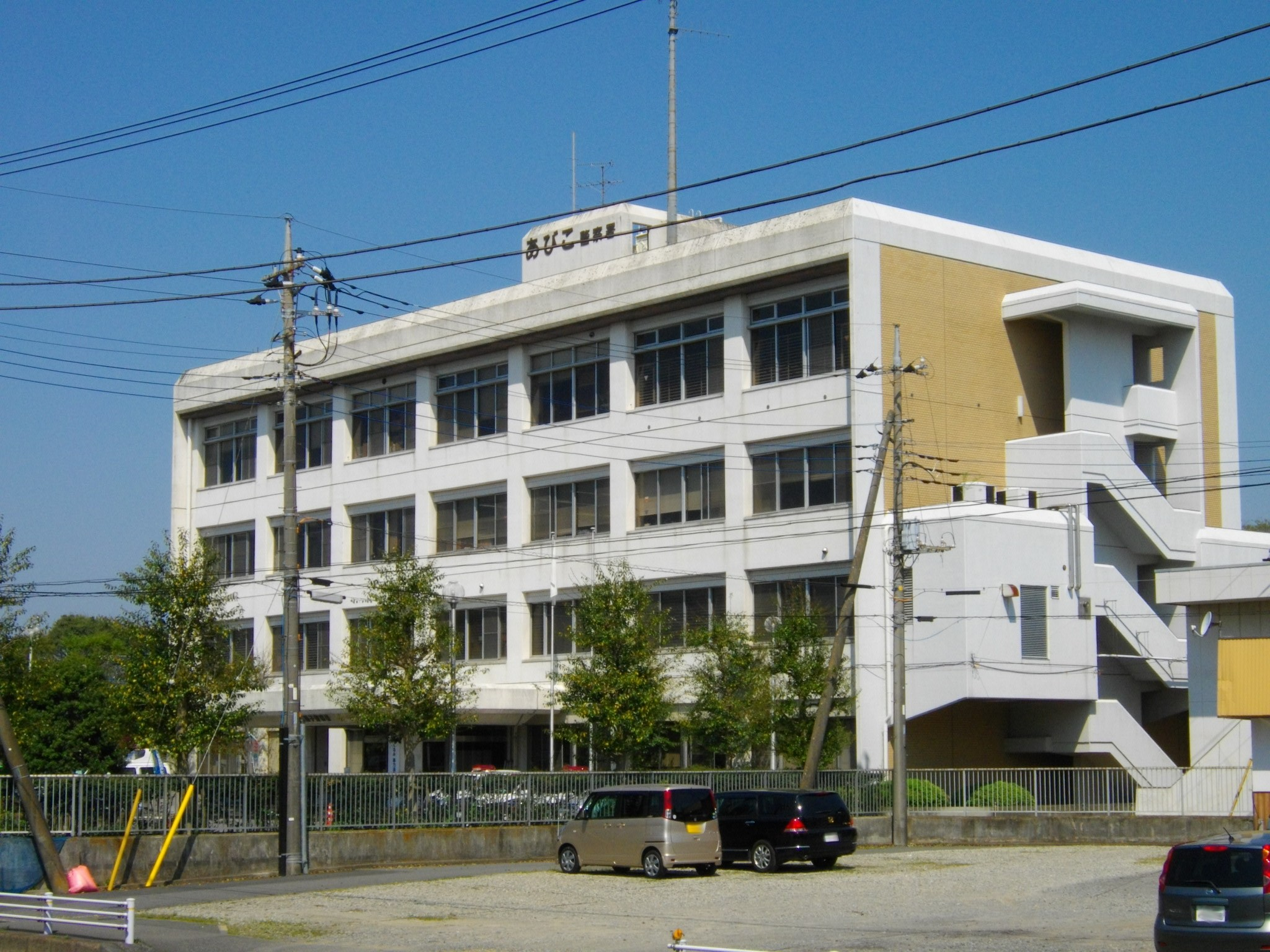 Abiko Police Station